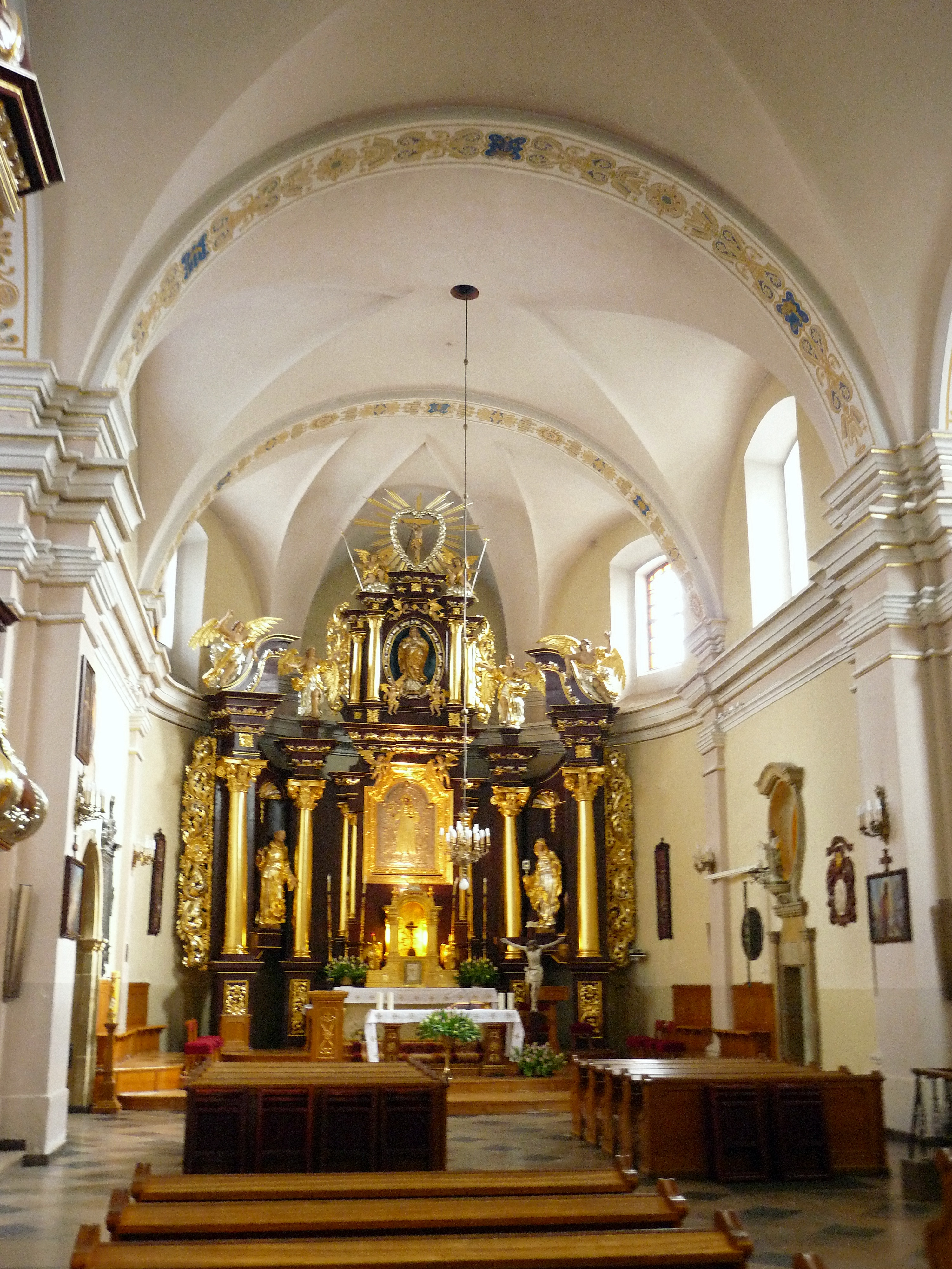 Łódź-Łagiewniki (Poland), St. Anthony of Padua Church - interior